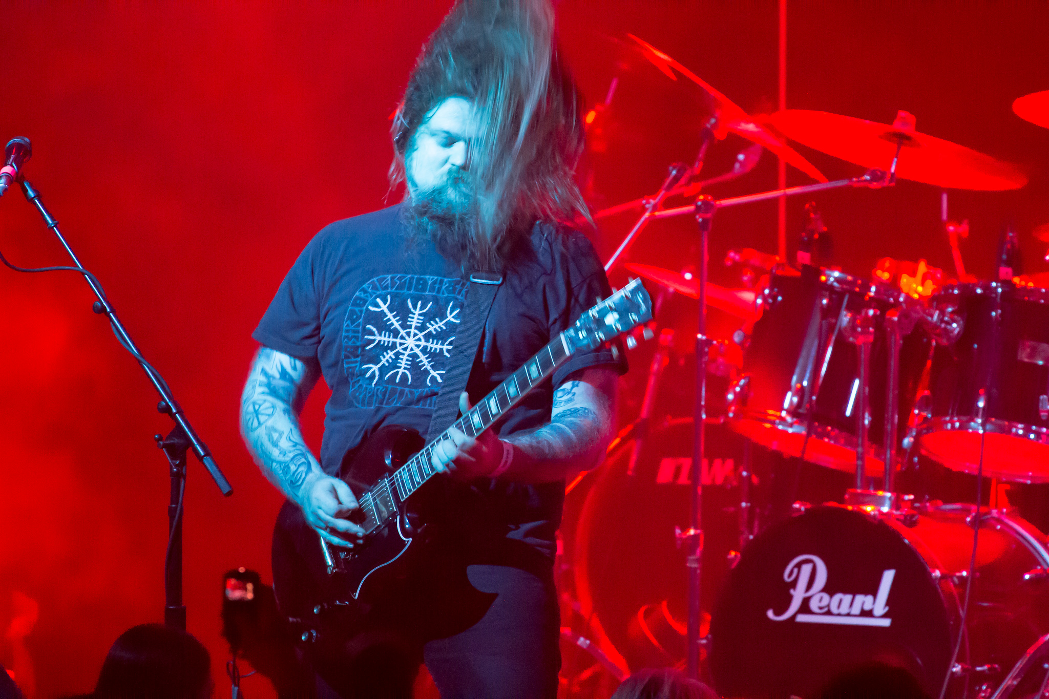 Enslaved playing on the "Barge to Hell" metal cruise in 2012